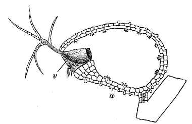 Utricularia trap